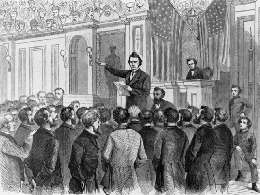 The Last speech on impeachment--Thaddeus Stevens closing the debate in the House, March 2.